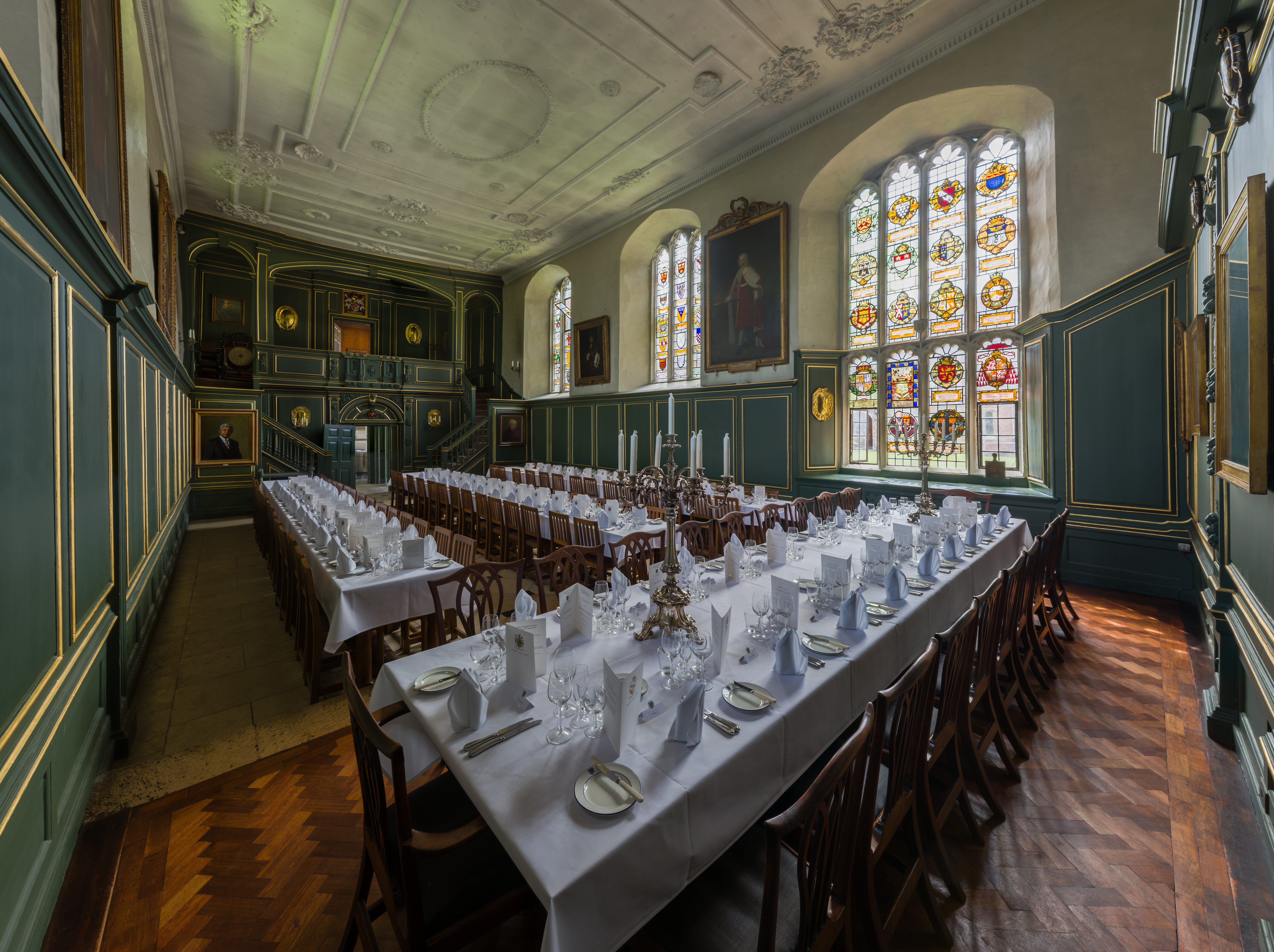 The dining hall of Magdalene College, Cambridge, England. The hall was prepared for a lunch. This is a retouched picture, which means that it has been digitally altered from its original version. Modifications: lens flares removed..